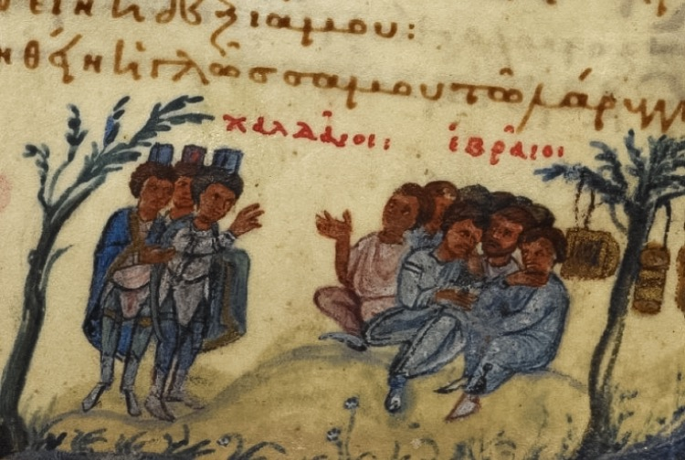 Three Chaldean soldiers with Hebrew captives.